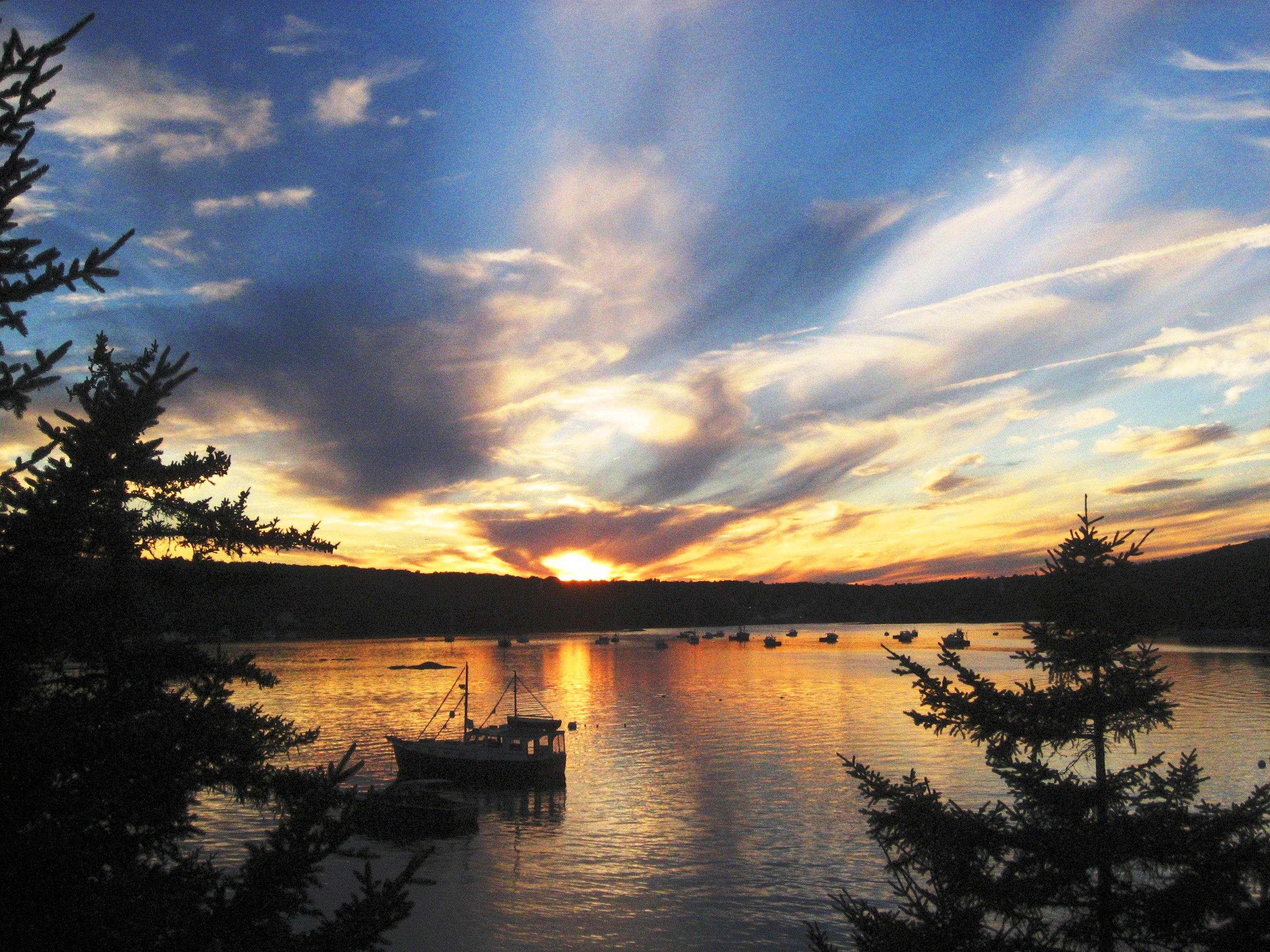 A sunset viewed from our porch in Blue Hill, Maine.